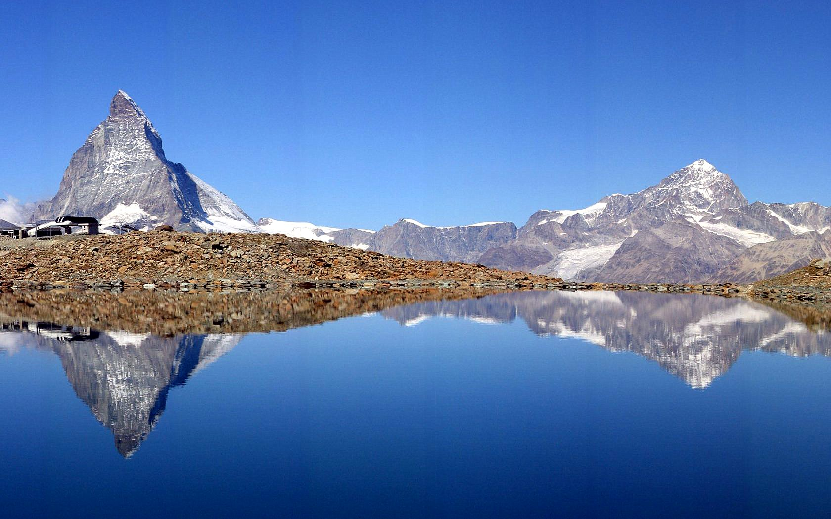 Matterhorn (4478m, left) and Dent Blanche (4357m) on the right. Photo taken from near Gornergrat, Switzerland.